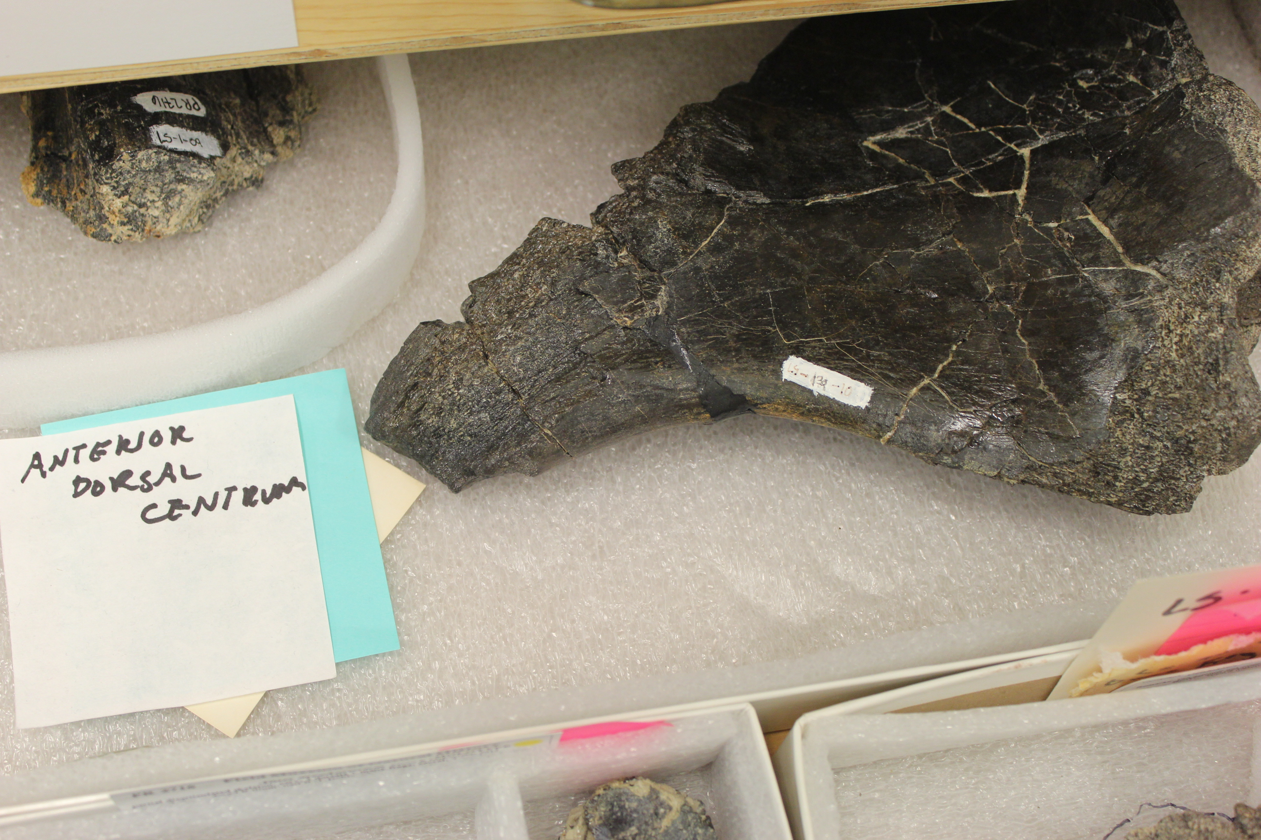 The anterior dorsal centrum of Siats at the Field Museum of Natural History.